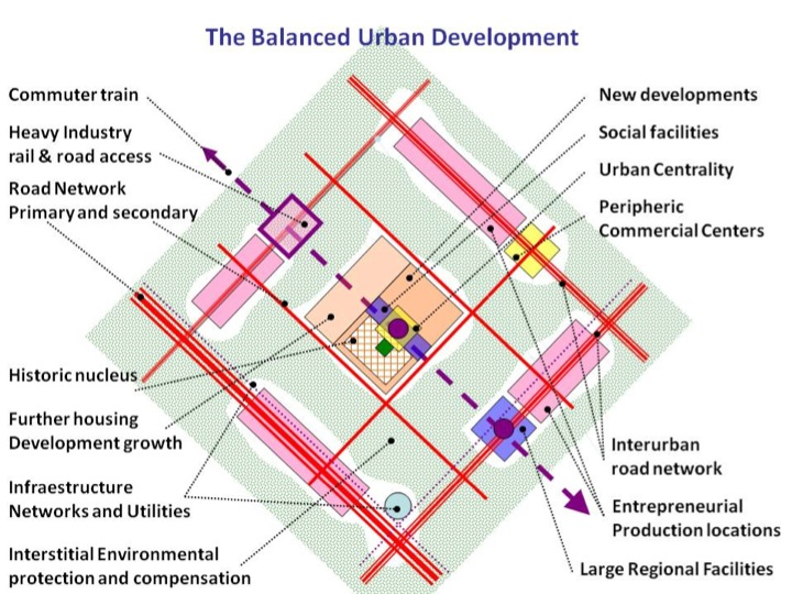 Balanced Urban Development Unit